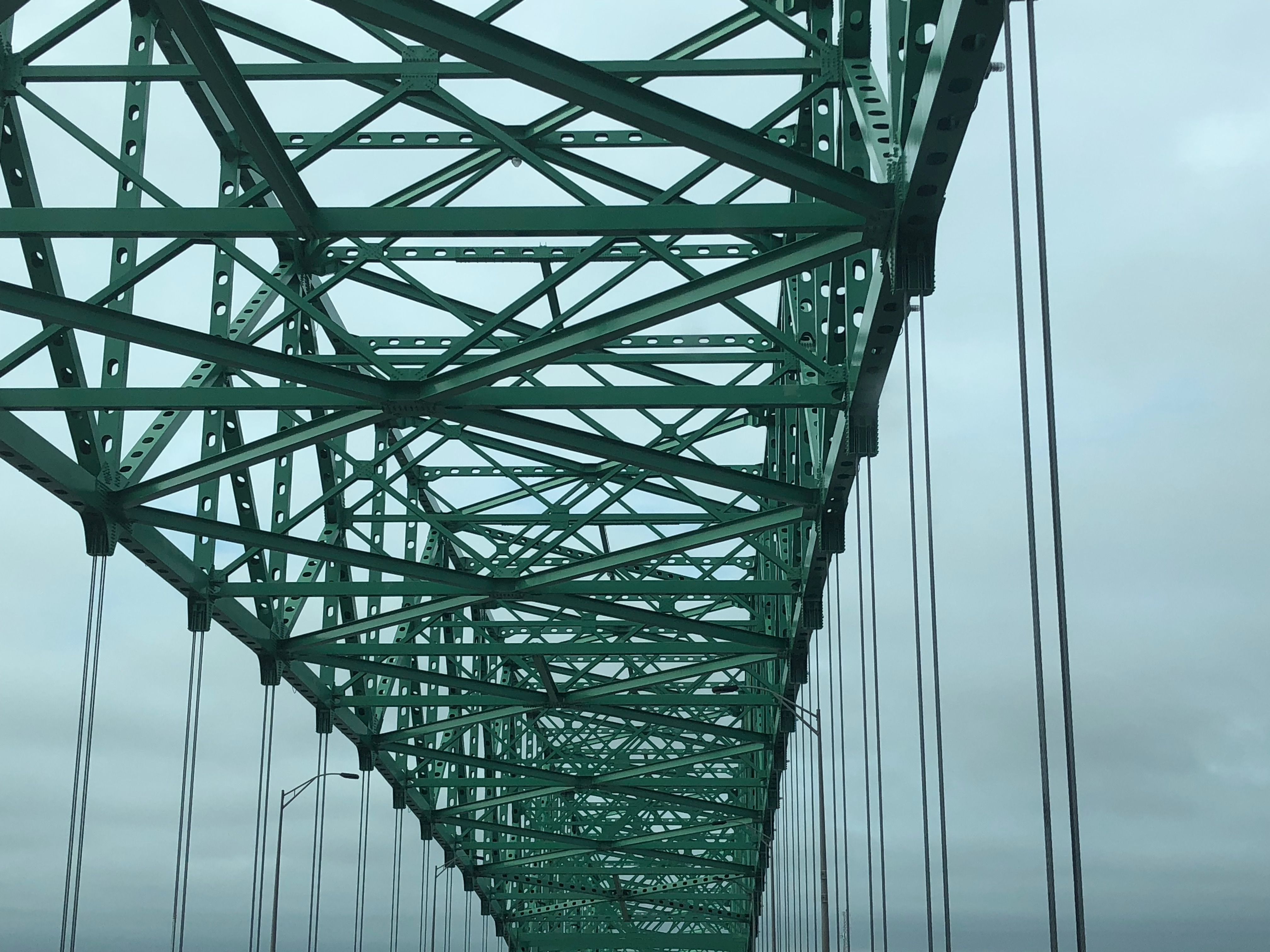 Isaiah David Hart Bridge In February 2019 Image 5